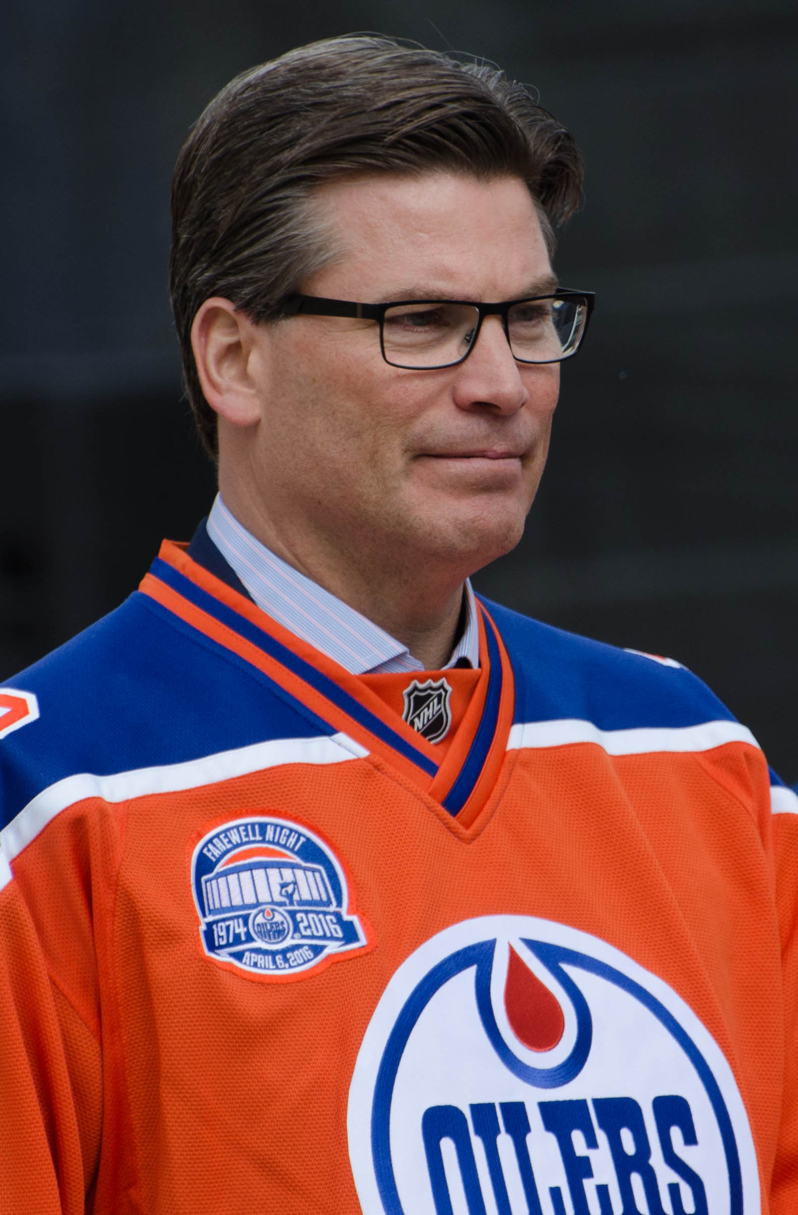 Craig Simpson in Edmonton, April 2016